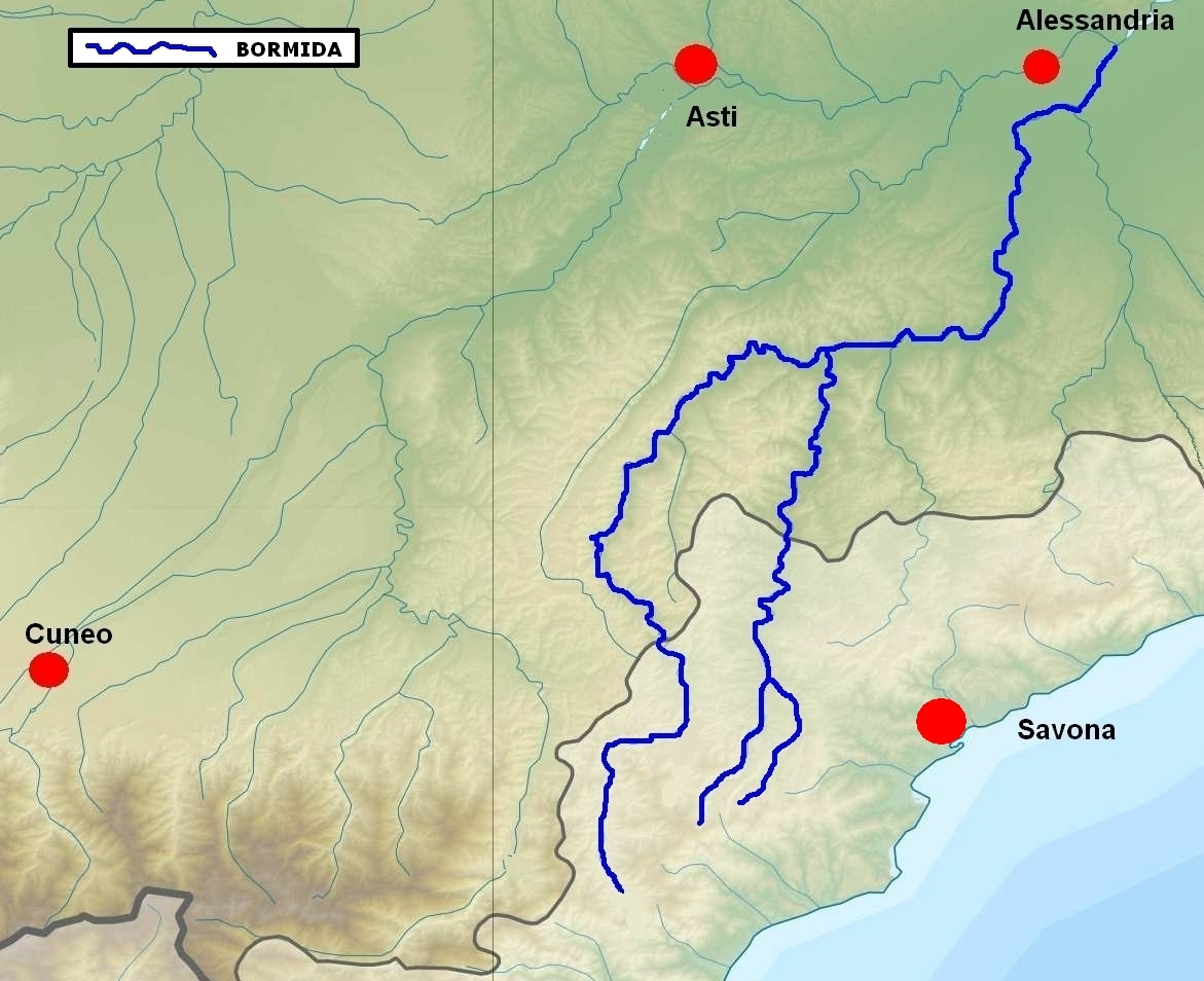 location of the stream